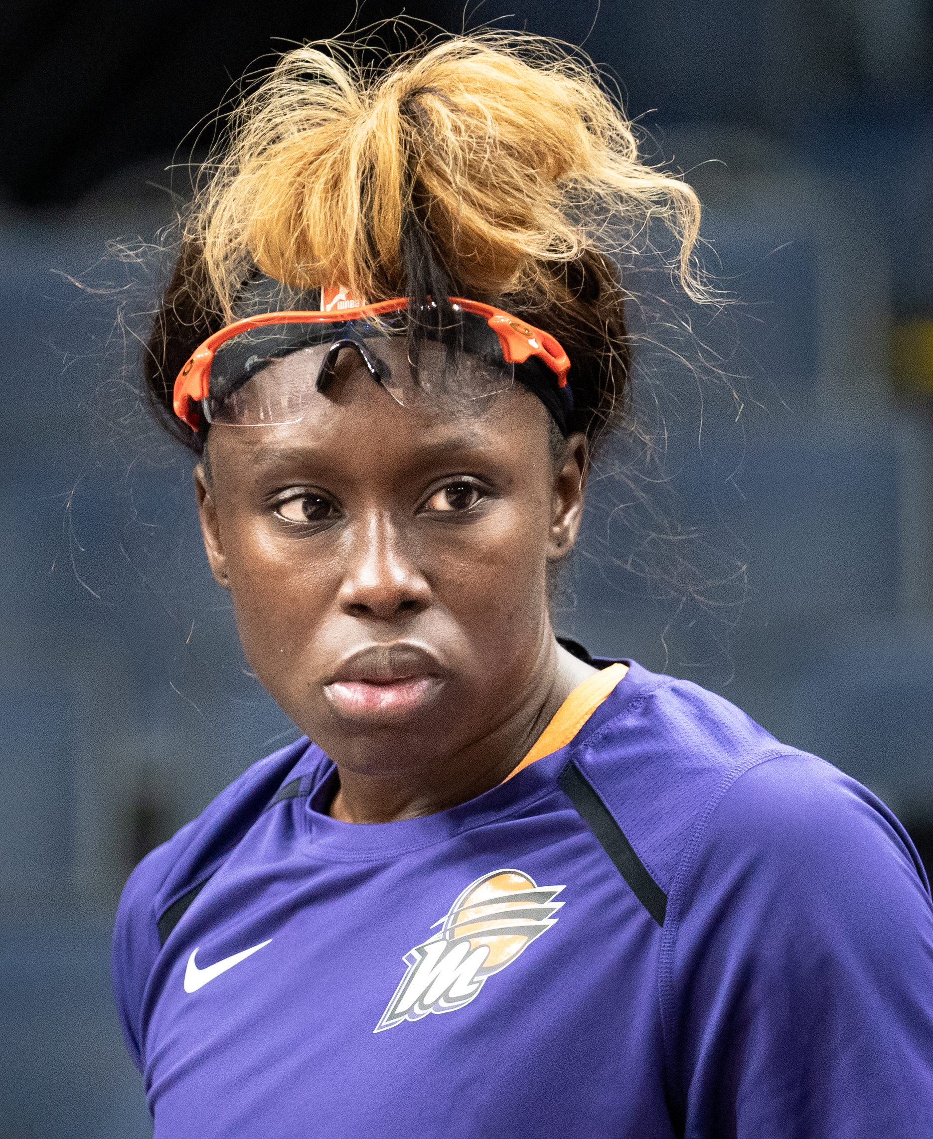 Phoenix Mercury player Essence Carson warming up before a game against the Minnesota Lynx